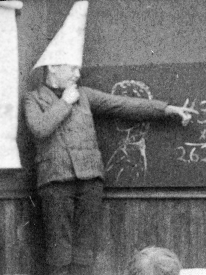 Cropped portion of stereograph